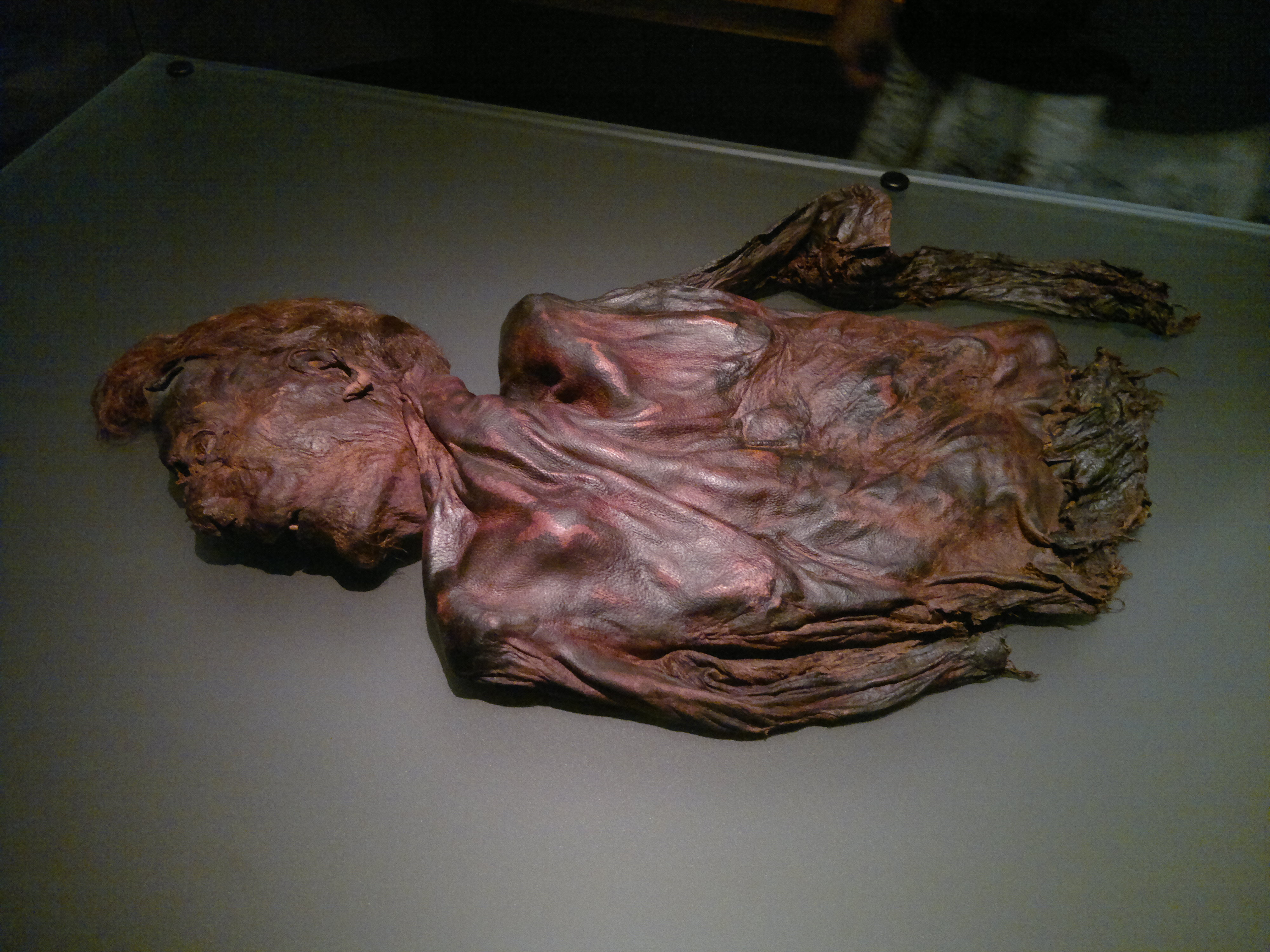 Bog body Clonycavan Man at National Museum of Ireland, Dublin, around 4th or 3rd century BC